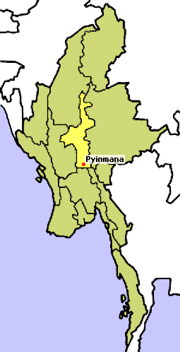 Location of Pyinmana in Mandalay province, Myanmar